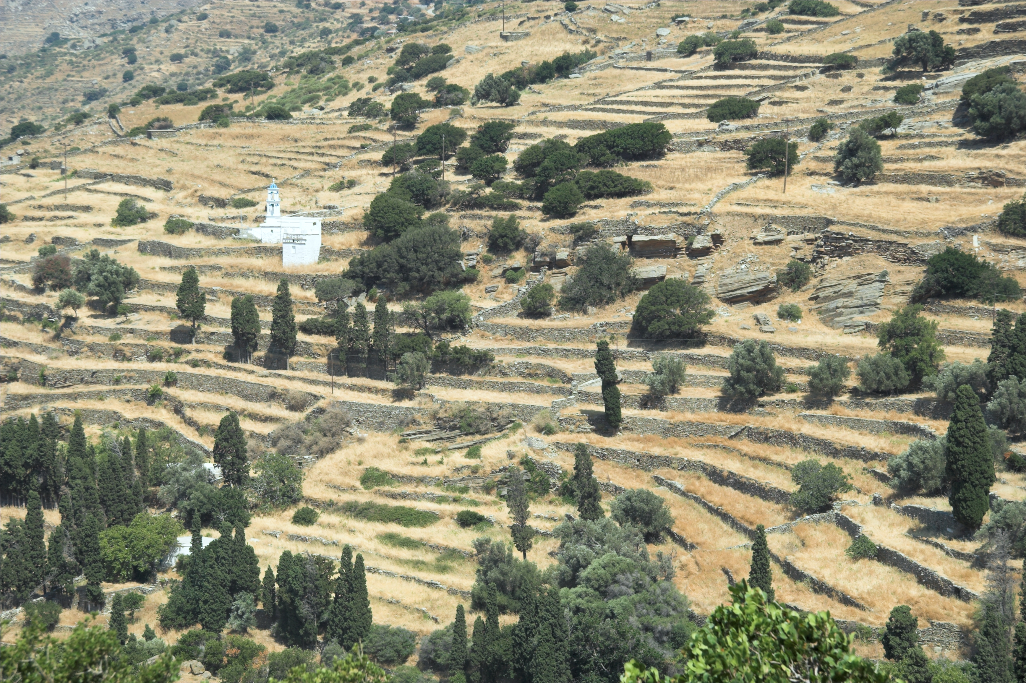 The right of the church are the ruins of an ancient Greek city Paleopolis. Andros.